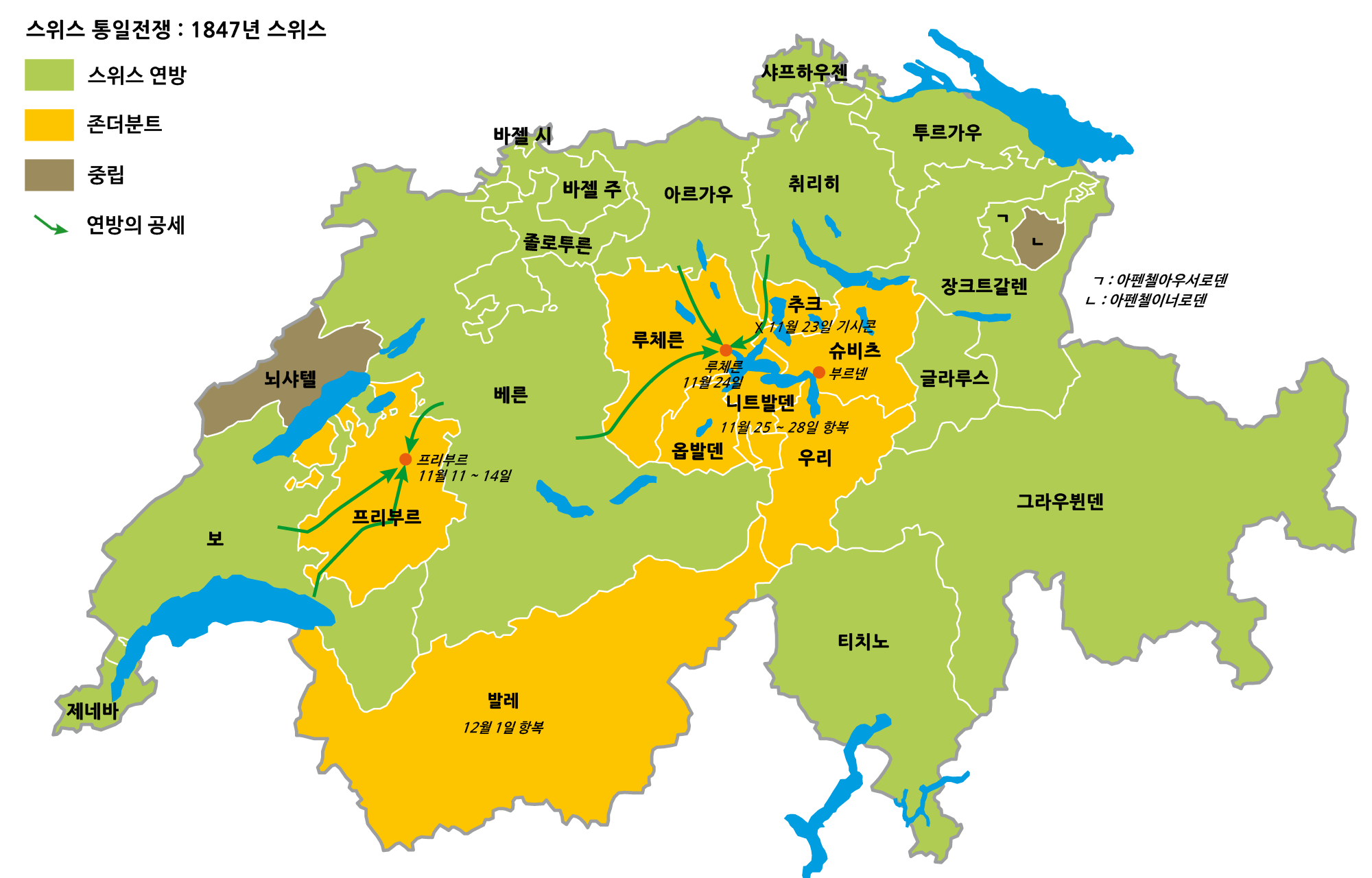 Map of the Sonderbund War in Switzerland 1847.